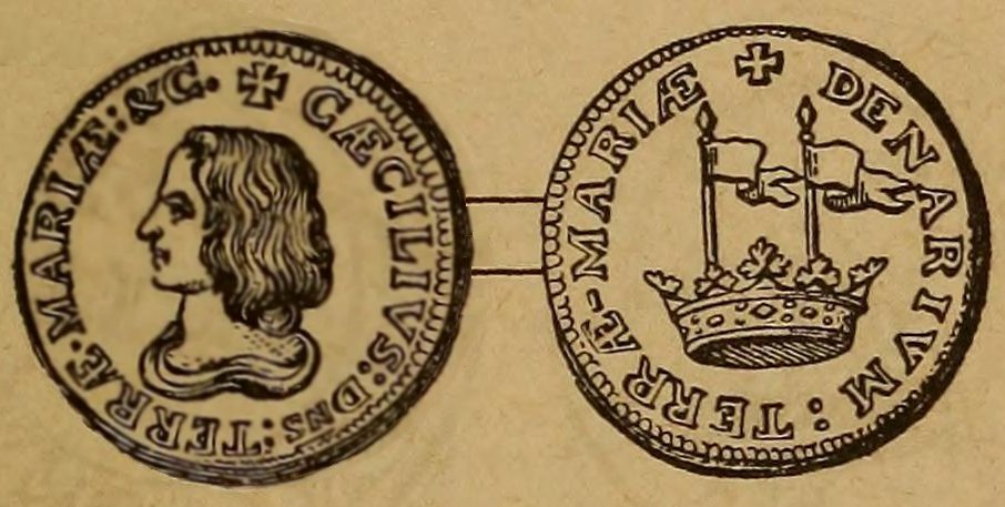 Lord Baltimore penny, front and back